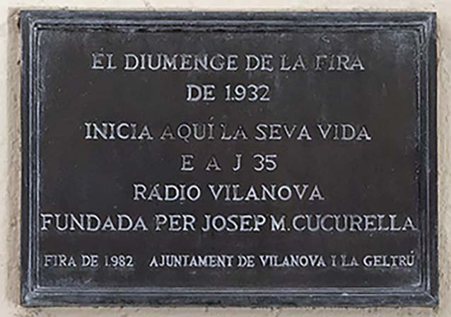 First site indicating plate